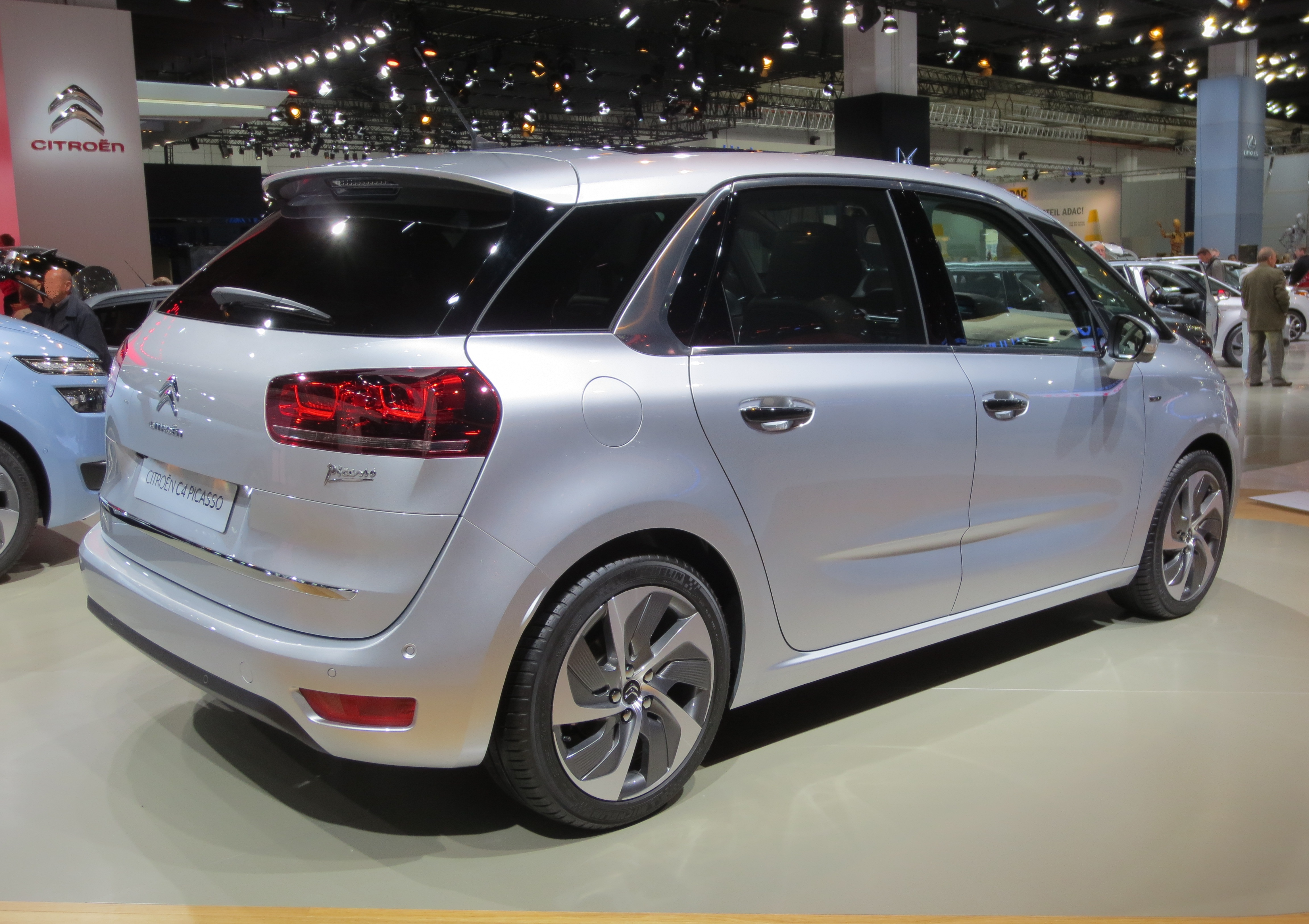 Subject: Citroën C4 Picasso Mk2 5 places Author: Luc106 Date:September 17th, 2013 Event: IAA 2013 Place/Country: Frankfurtermesse, Frankfurt am Main (Deutschland) I release all rights in the public domain.